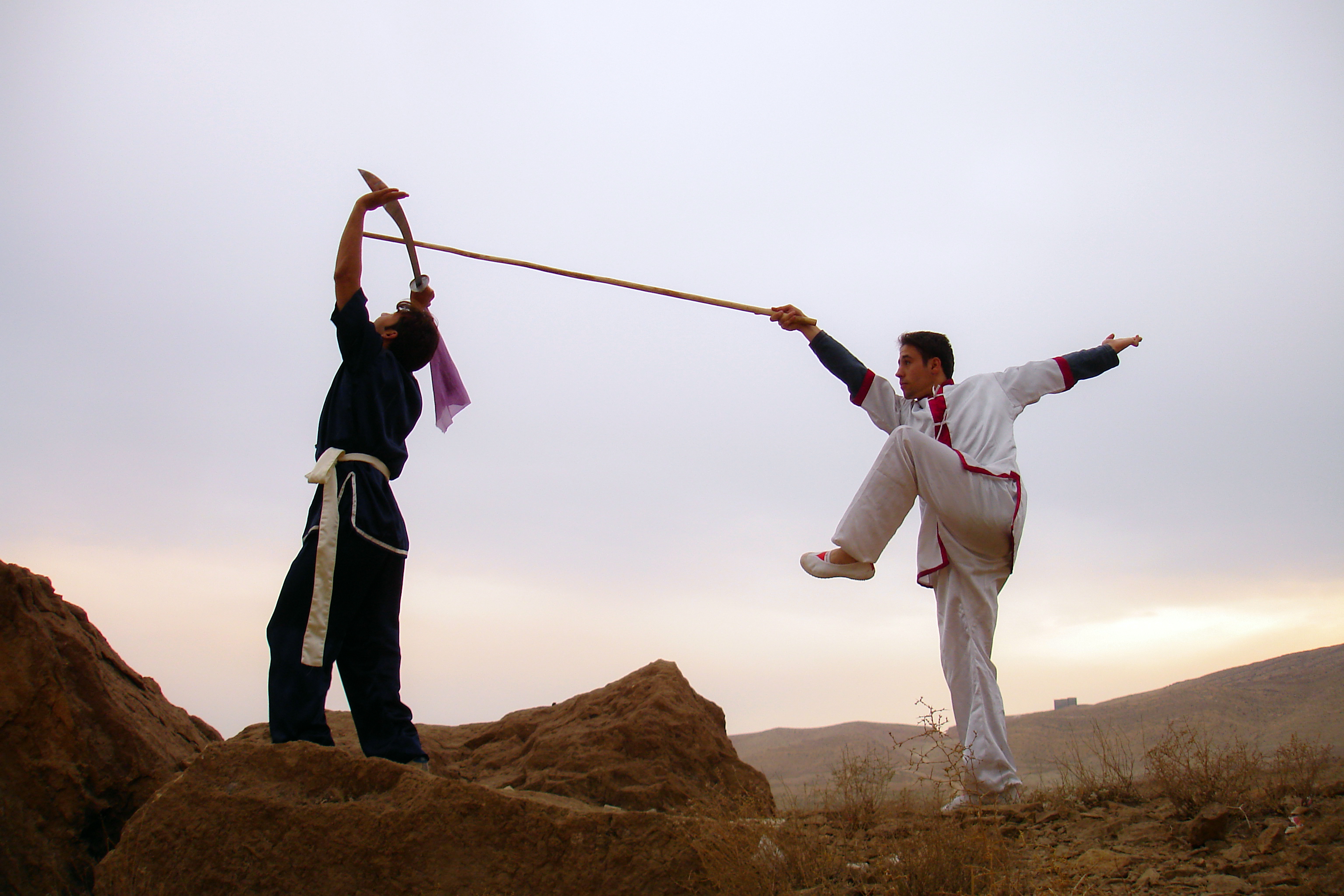 Kung fu/Kungfu or Gung fu/Gongfu (/ˌkʌŋˈfuː/ (About this sound listen) or /ˌkʊŋˈfuː/; 功夫, Pinyin: gōngfu) is a Chinese term referring to any study, learning, or practice that requires patience, energy, and time to complete. አማርኛ: ኩንግ-ፉ (ቻይንኛ፦ ጎንግፉ) በቻይና ሀገር የሚያስተምሩ የትግል (ቡጢ) ሙያ ማለት ነው። በትክክለኛ ቻይንኛ ይህ የቡቅሻ ትግል ዉሹ ሲባል፣ የ«ኩንግፉ» ትርጉም በትክክል የማናቸውም አይነት ሙያ ወይም መልመጃ ነው። ለምሳሌ፣ «ኮንግ-ፉ ቻ» ማለት በሻይ (ቻ) ሥነ ሥርዓት ያለው ሙያ ማለት ነው። ከ1960ዎቹ ጀምሮ ግን የቻይና ቡቅሻ በተለይ በእንግሊዝኛ ኩንግ-ፉ ተብሏል።